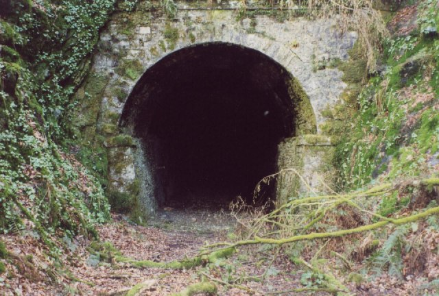 Maenclochog Tunnel, Pembrokeshire. This is the south portal of a tunnel on a branch that served North Pembrokeshire by forming a loop off the GWR main line to Fishguard Harbour. During World War it was used as target practice by the RAF and the USAF. It would appear, however, that as both portals are unmarked that either they were not too accurate or dummy bombs were used.